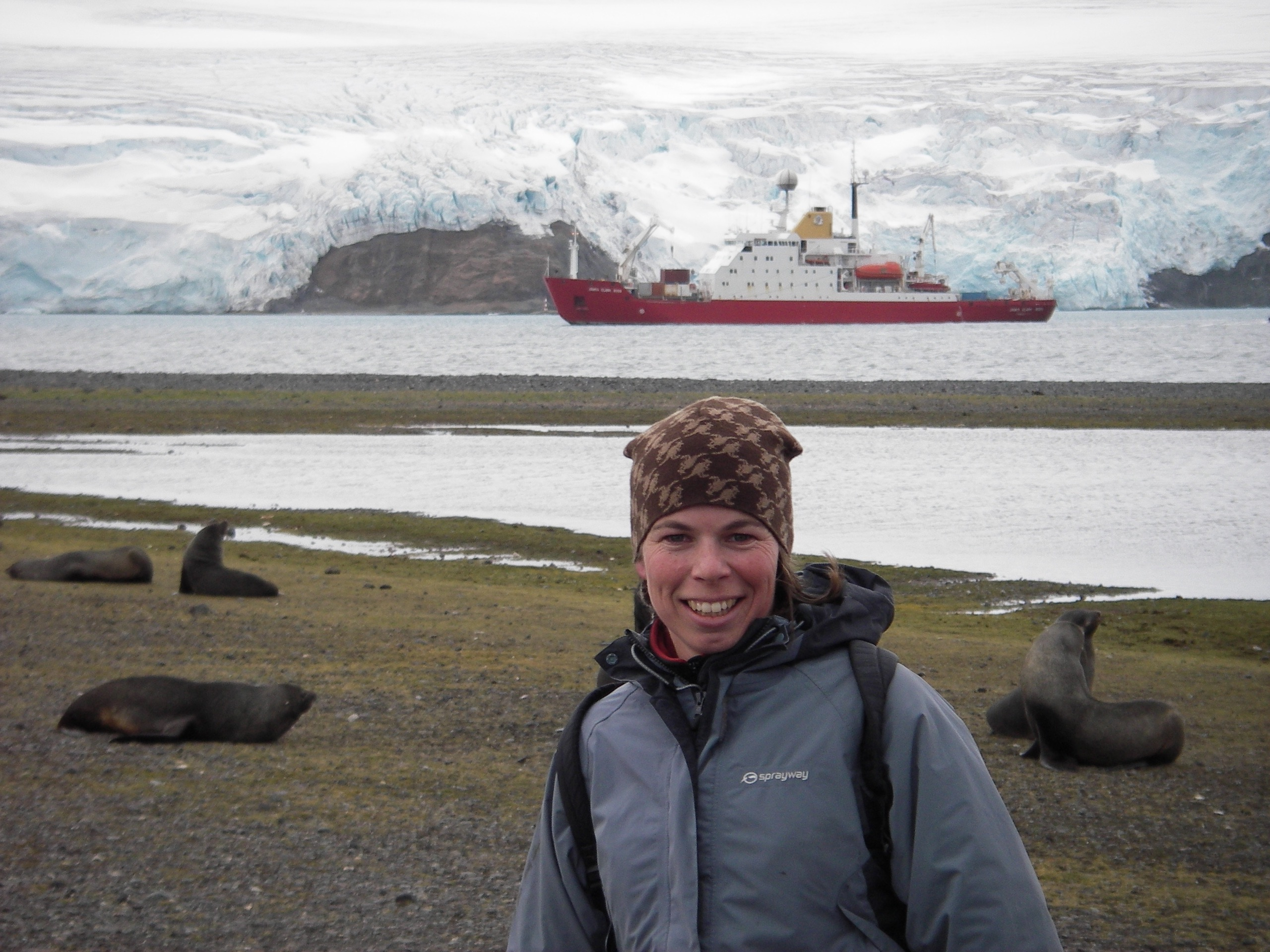 Jan Strugnell at Carlini base with the ship James Clark Ross in the background